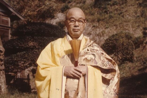 Baian Hakujun Kuroda Roshi, the father of Taizan Maezumi